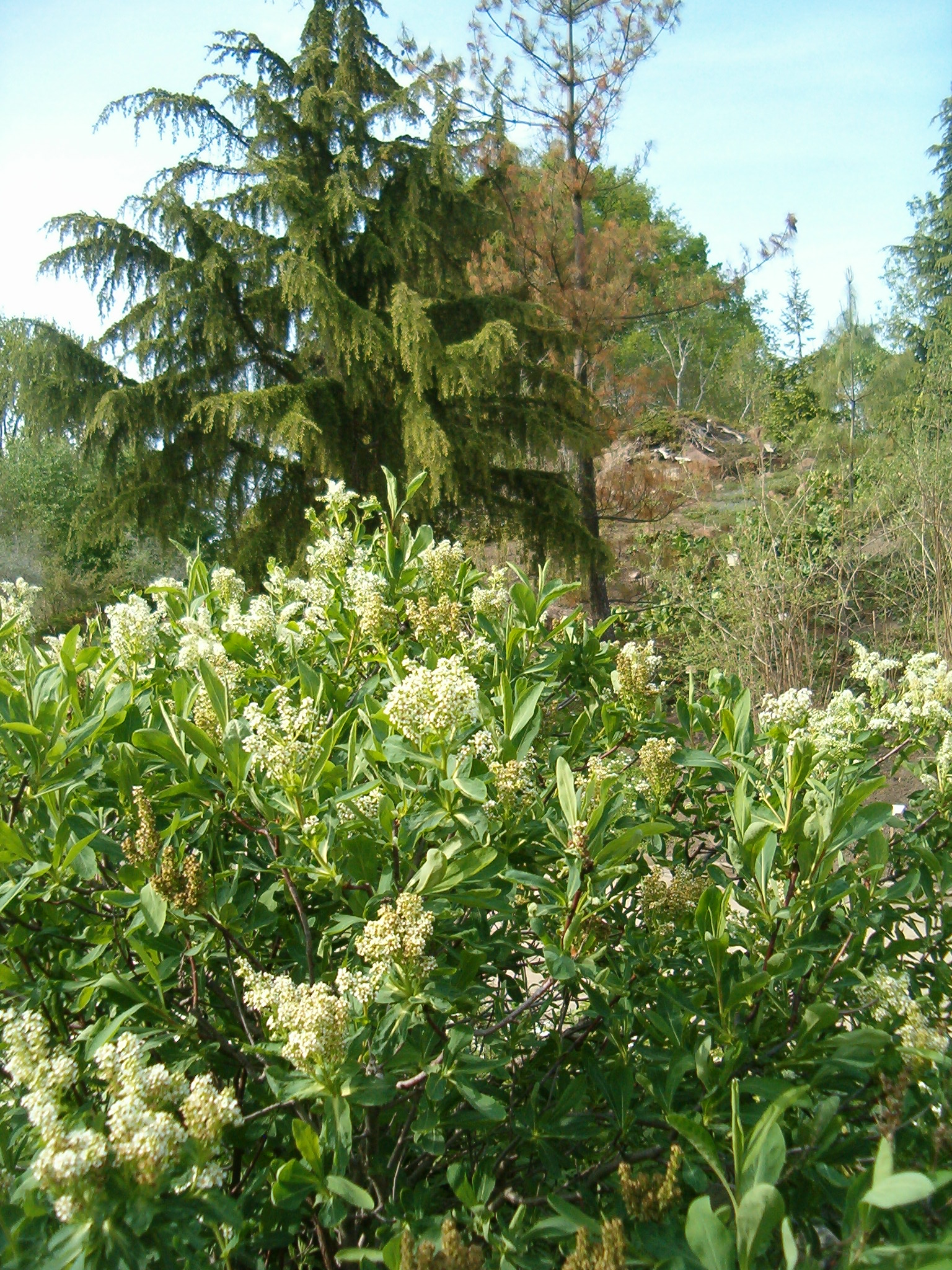 Species Sibiraea laevigata Synonym "Sibiraea altaiensis" Sibiraea laevigata at End of April with Inflorescences in the Botanical Gardens Berlin Dahlem